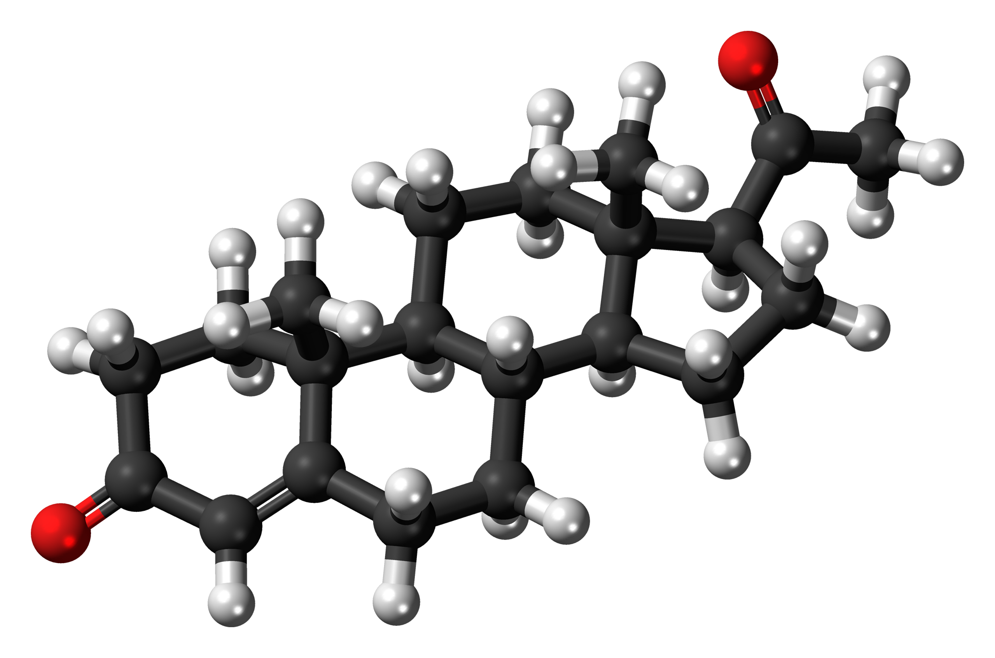 Ball-and-stick model of the progesterone molecule, a steroid hormone that controls the menstrual cycle. Colour code: Carbon, C: black Hydrogen, H: white Oxygen, O: red